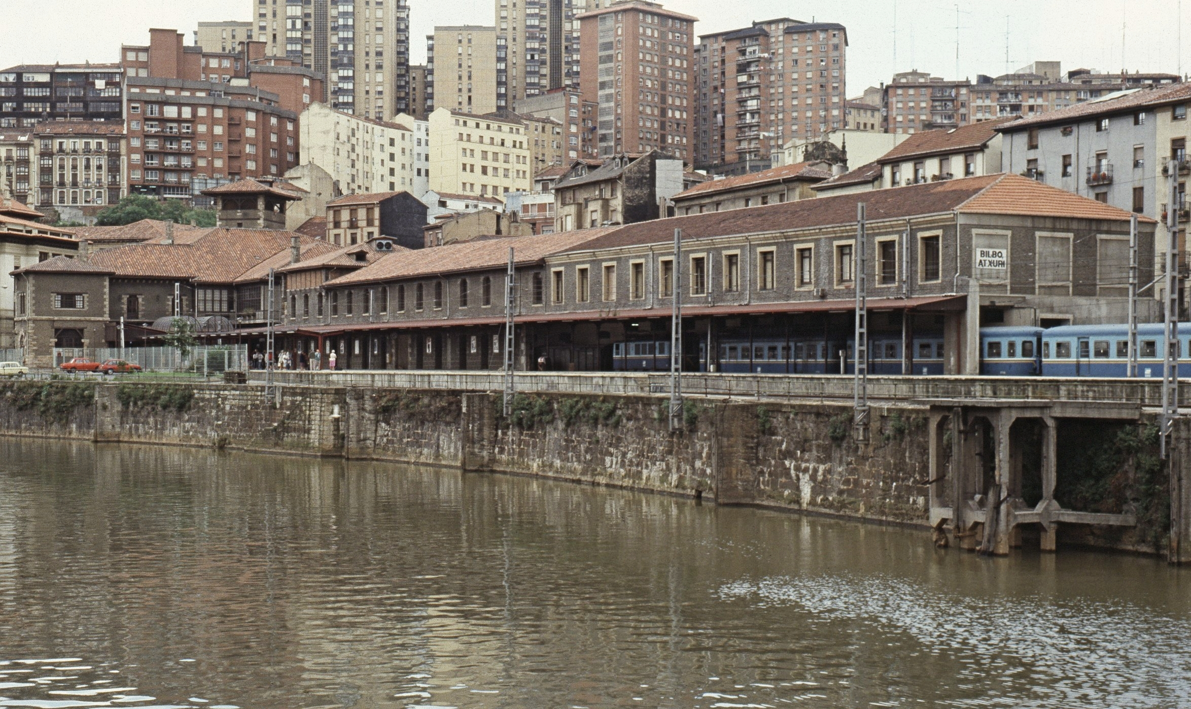 Bilbo Atxuri train station